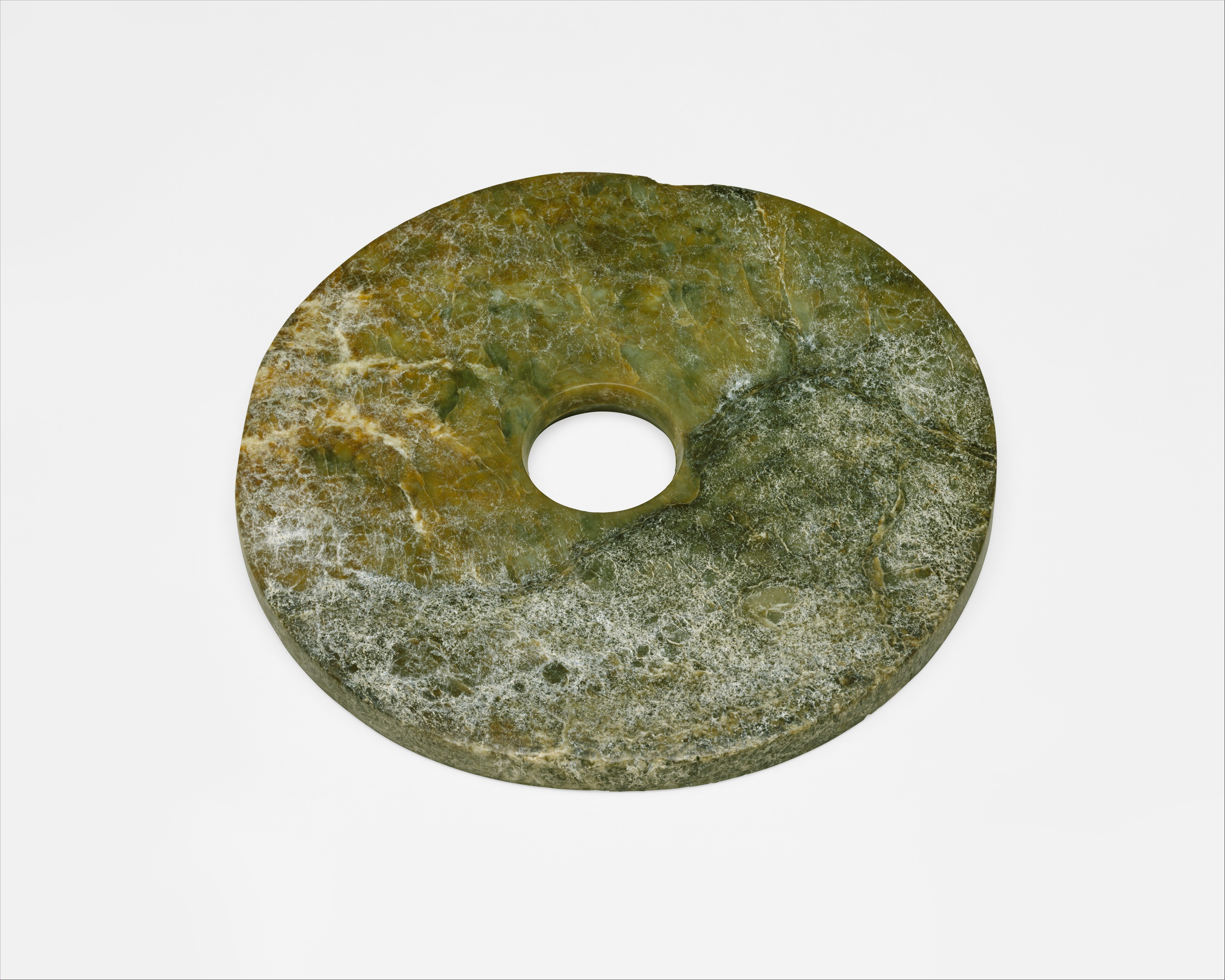 China; Ritual object; Jade